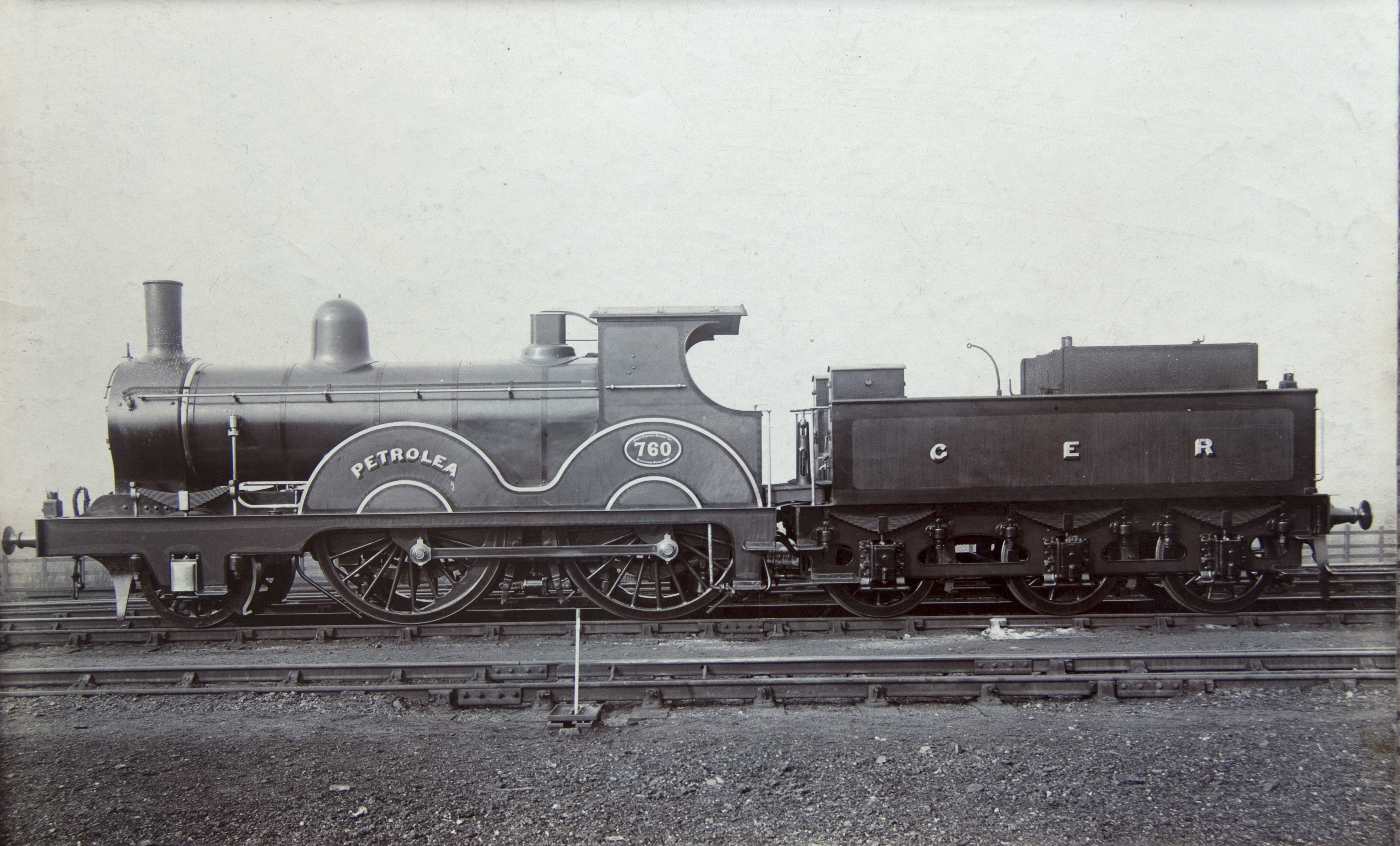 The T19 class 2-4-0 was James Holden's second design for the GER, and formed the basis for all of the larger locomotives introduced for the next fourteen years. In 1889, No. 759 was fitted with oil burning gear and, two years later, No. 760 was similarly-equipped and named Petrolea. Nos. 712 and 761 followed in 1893. Many of the the 2-4-0 T19 were subsequently converted to 4-4-0 T19Rs by 1908 (60), with all the remaining 2-4-0s scrapped by 1920. This photo was taken from an old original photo we came across while helping to clear the house of a deceased friend. I have uploaded it to Flickr in the hope that it might be interesting to steam enthusiasts.